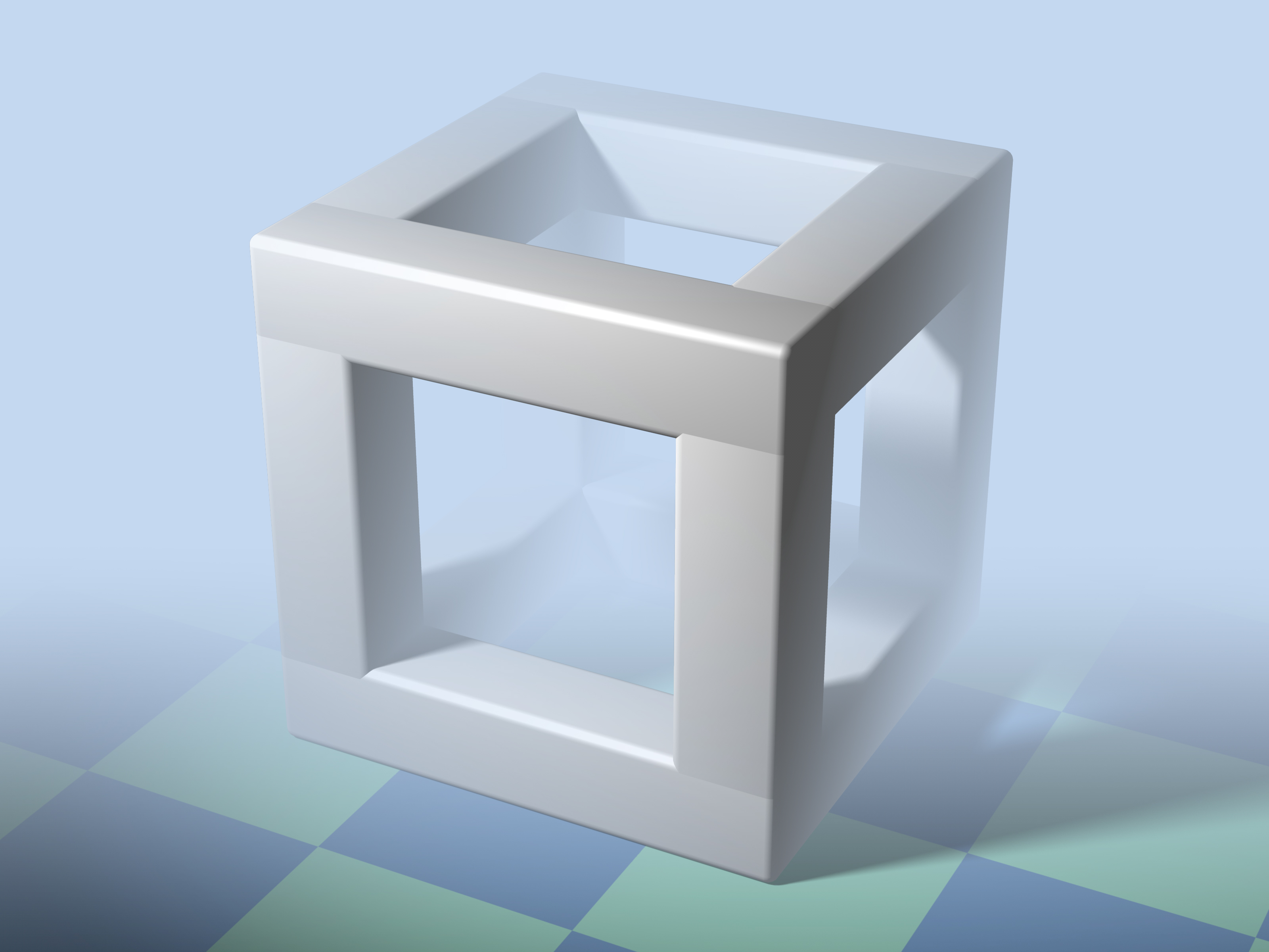 An open cubic frame structure made in the proportions of a cube, with the vertices connected by sold bars each with a square cross section. The edges have been slightly rounded or radiused. The structure is placed on a green and blue tiled floor. The structure is partially obscured by a pale mist or blue fog.